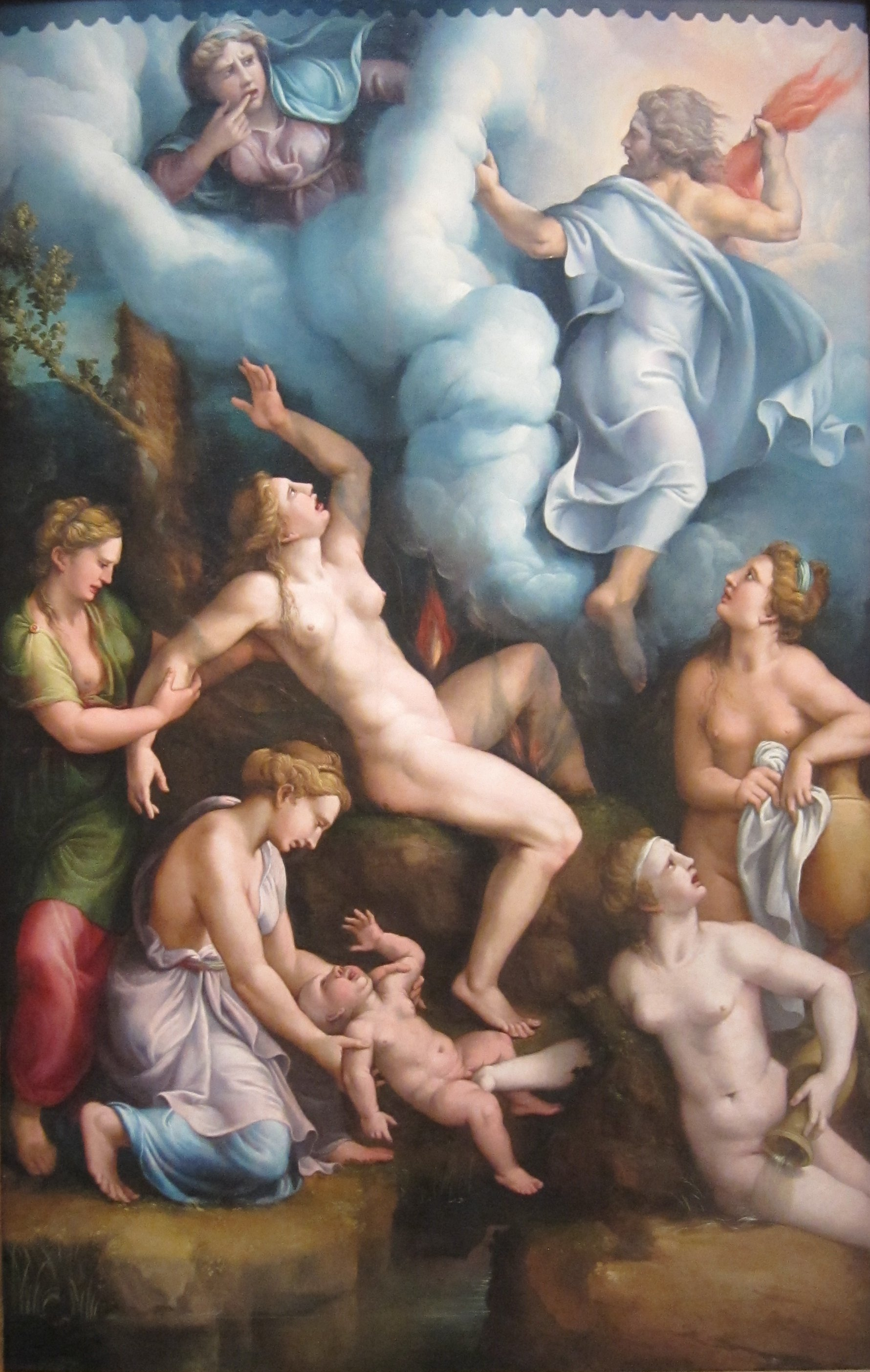 The Birth of Bacchus, oil on panel painting by Giulio Pippi, called Giulio Romano, and workshop, c. 1530s, Getty Center